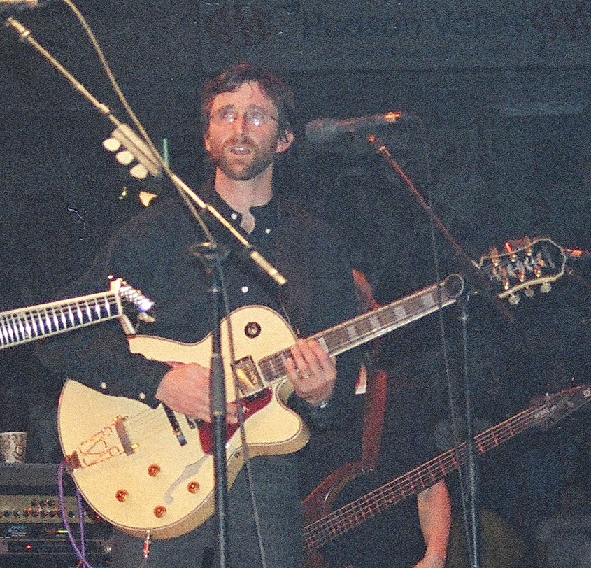 Phish 20th Reunion tour Pepsi Arena, Albany NY Dec 2, 2003